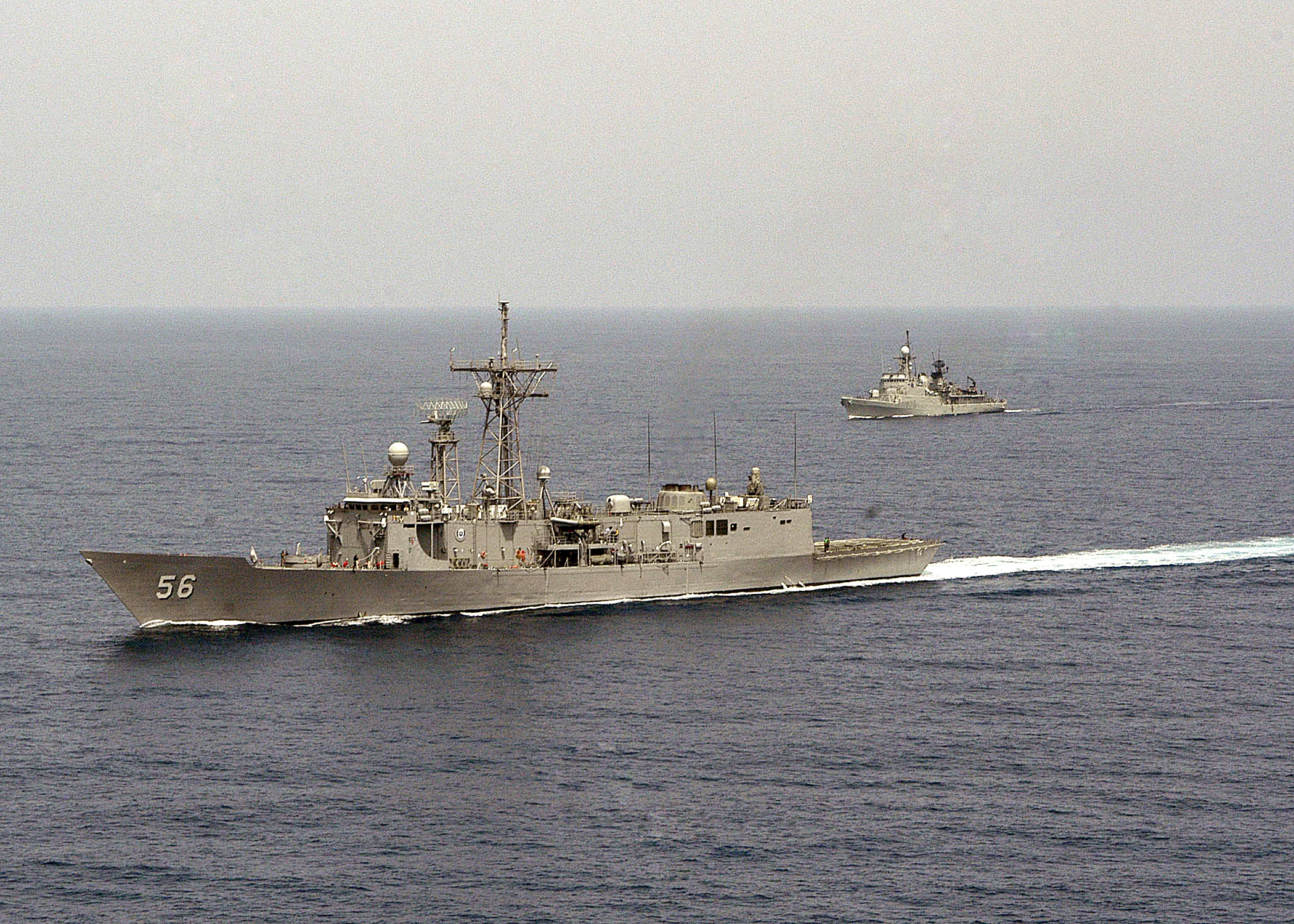 060607-N-8547M-314 Mediterranean Sea (June 7, 2006) - The Perry class guided-missile frigate the USS Simpson (FFG 56) and Algerian frigate El Kirch pass the amphibious assault ship USS Saipan (LHA 2) on her starboard side while conducting operation in the Mediterranean Sea. Saipan is underway to participate in a multi-national combined exercise with North African and European forces this summer during exercise Phoenix Express. The exercise will provide U.S. and allied forces an opportunity to participate in diverse maritime training scenarios helping to increase maritime domain awareness and strengthen emerging and enduring partnerships.